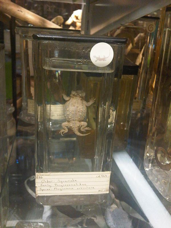 Mexican Plateau Horned Lizard or Chihuahua Desert horned lizard (Phrynosoma orbiculare) in Grant Museum of Zoology, London, England.